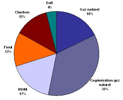 Energy consumption by district heating in France (2006)